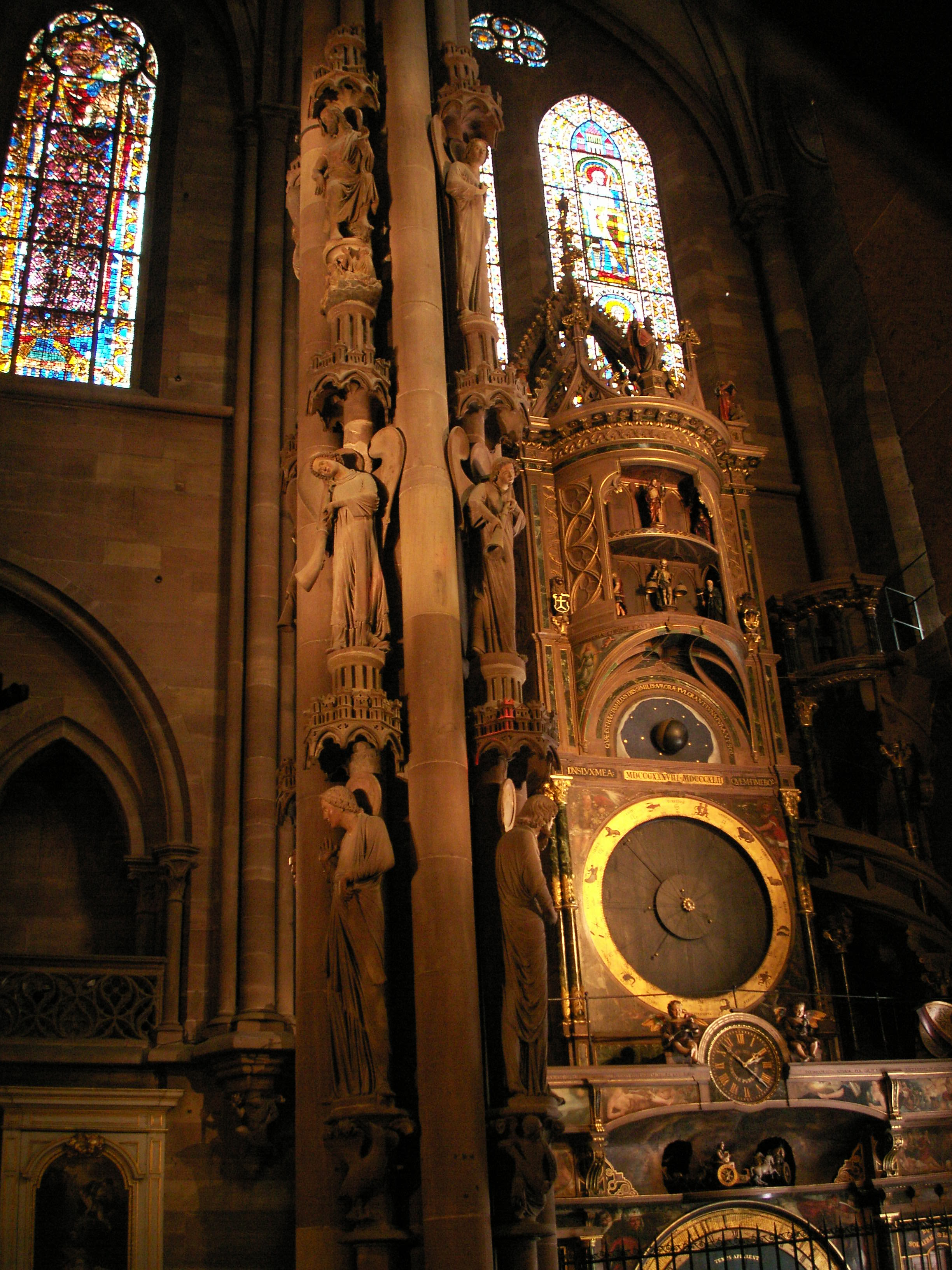 Cathedral Notre-Dame of Strasbourg (France) : the pillar of angels and the astronomical clock